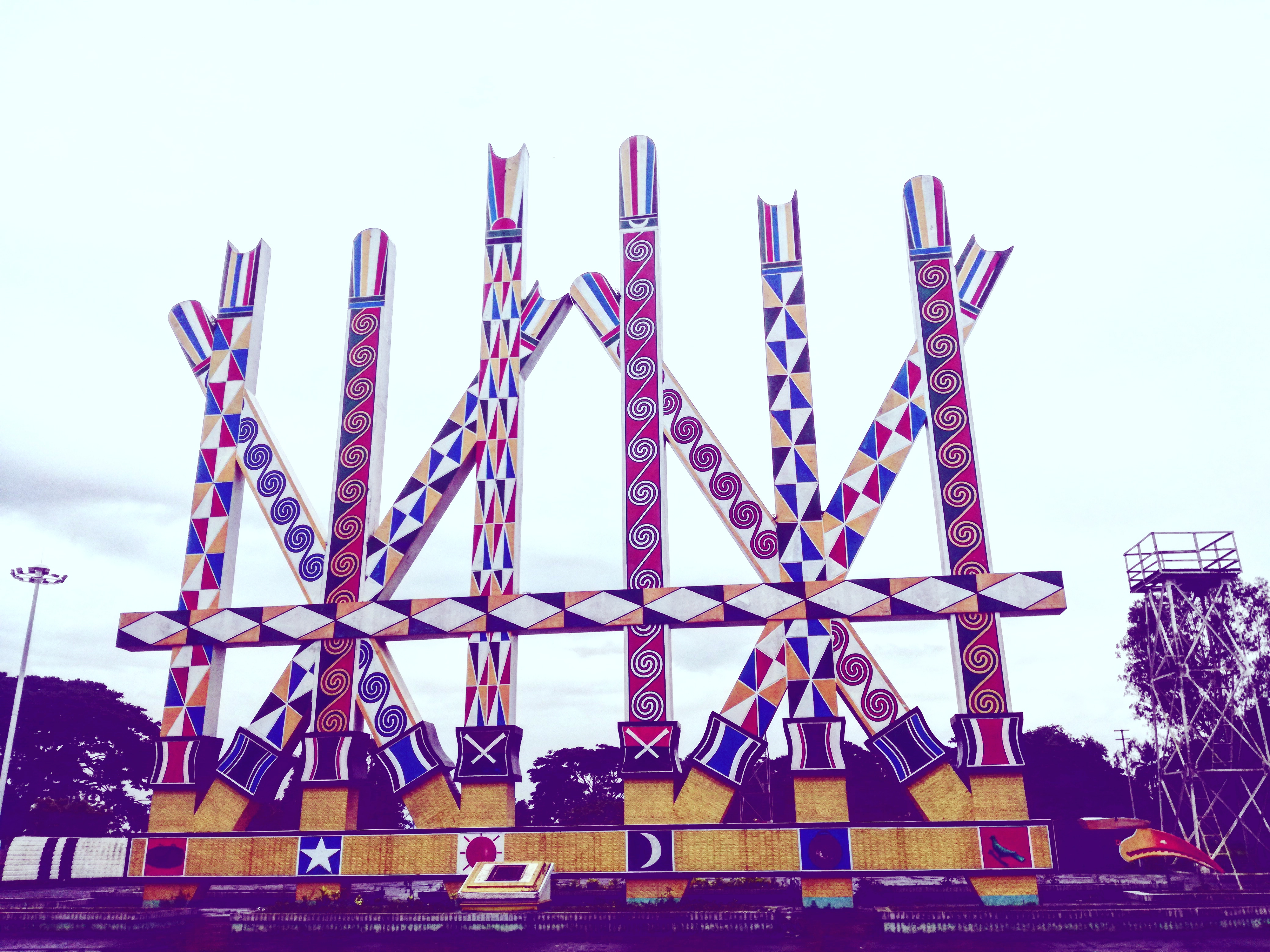 Manau Shadung at Myitkyina Park